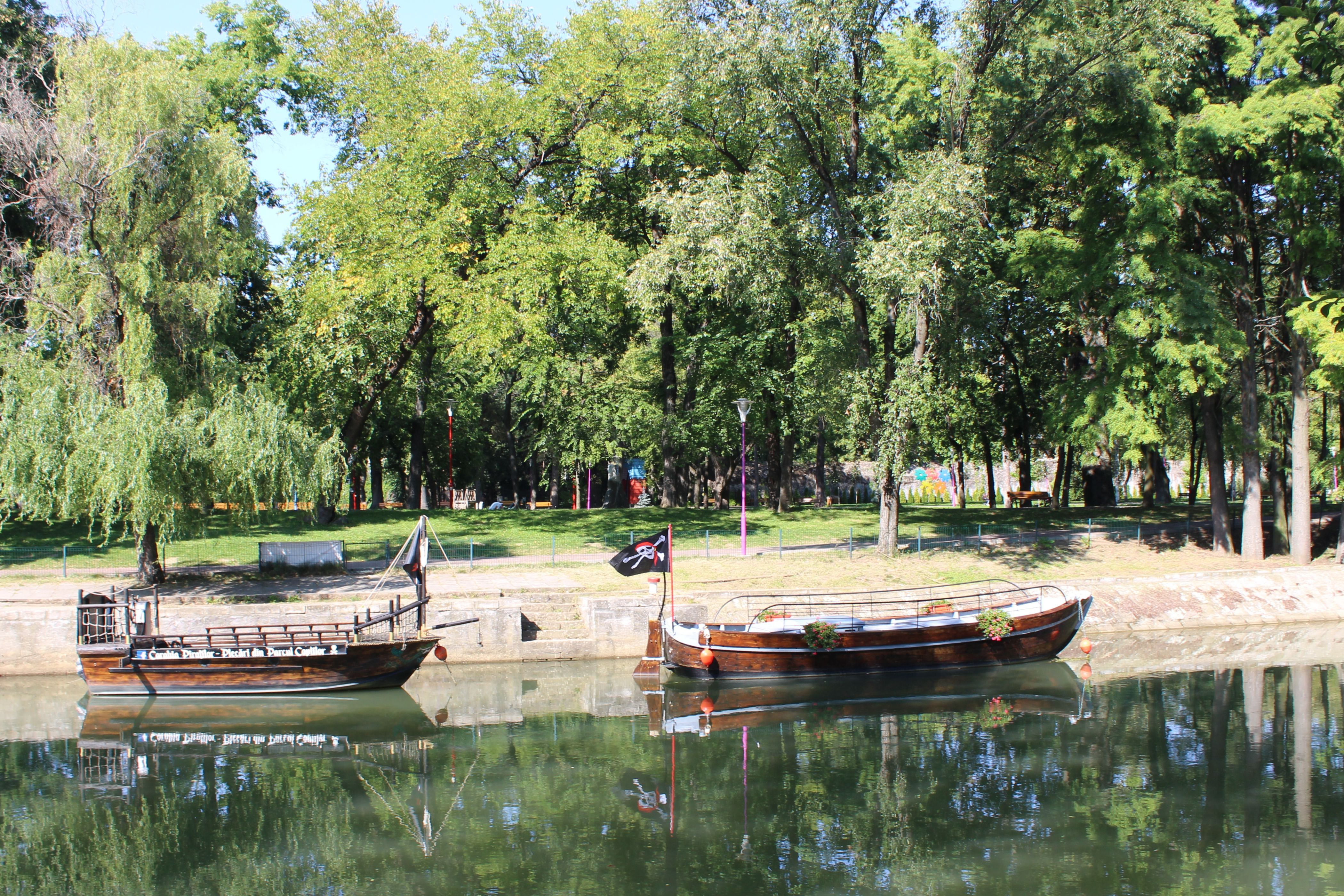 Pleasure boats on Bega, flying Jolly Roger with bandana near the Children's Park in Timisoara, Romania.